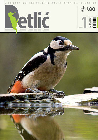 Cover of "Detlić" a Serbian ornithology magazine, uploaded with granted permission from the publisher, to be used in an article. This one is of the first issue, from 2009.